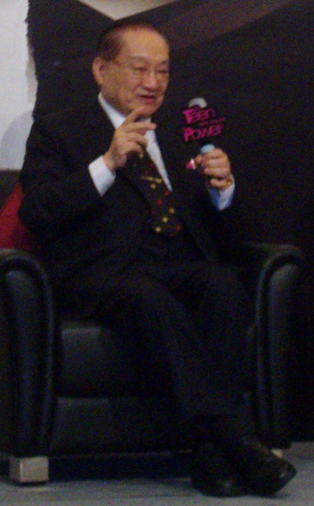 Photo of Jin Yong (金庸 / Louis Cha)